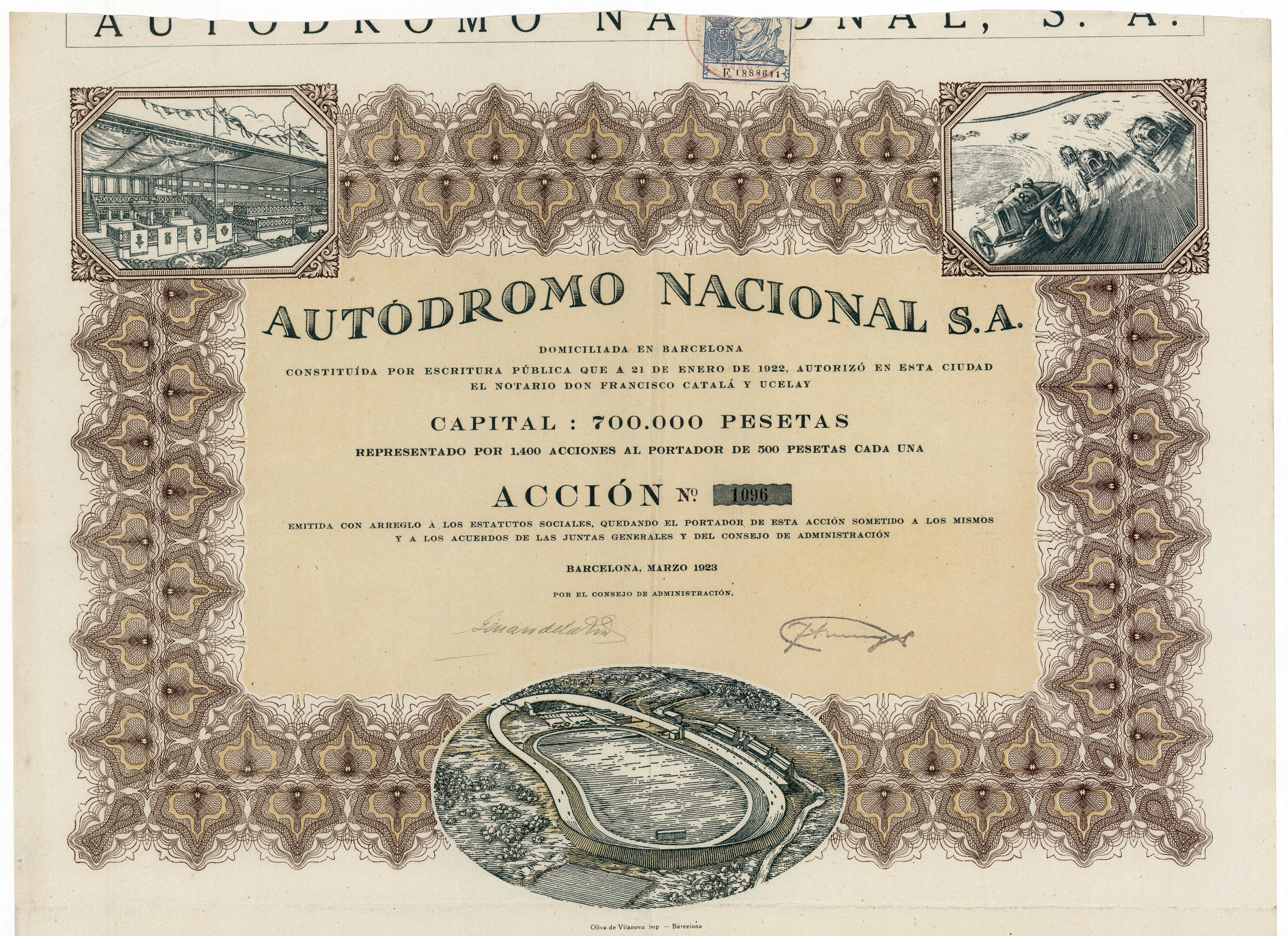 Share of the Autodromo Nacional S.A., issued March 1923